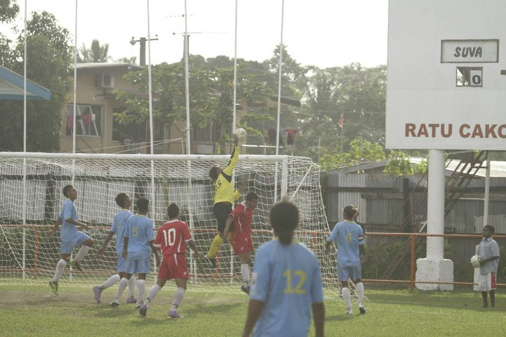 Selau_02